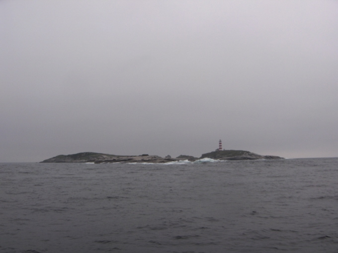 Sambro Island, near Halifax, Nova Scotia, viewed from the northwest, with the oldest surviving lighthouse tower in North and South America.